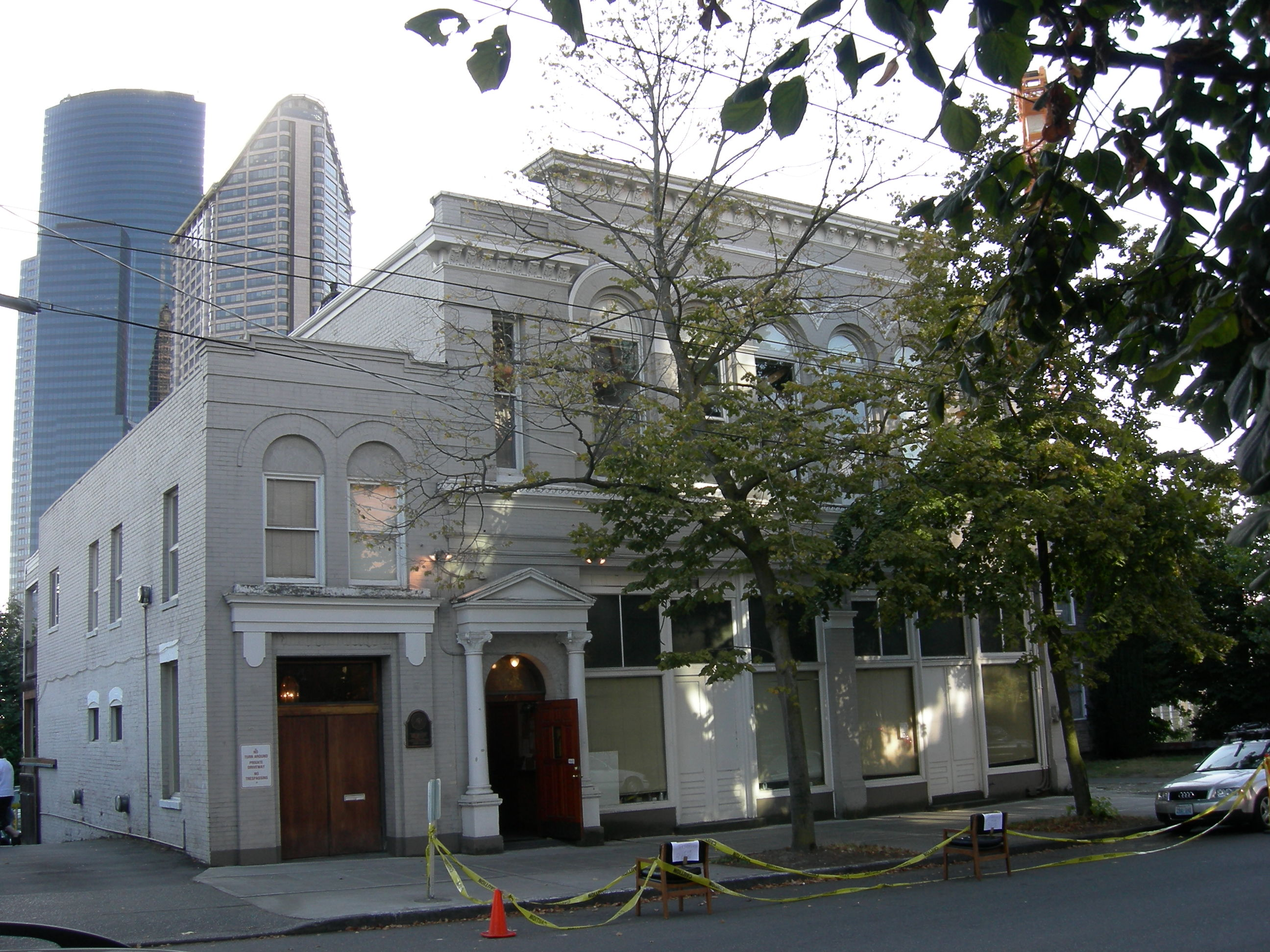 Former Assay Office, now Deutsches Haus (German Club), 613 Ninth Avenue, First Hill, Seattle, Washington, USA. The building is a Seattle City landmark and is on the National Register of Historic Places, ID #72001271.